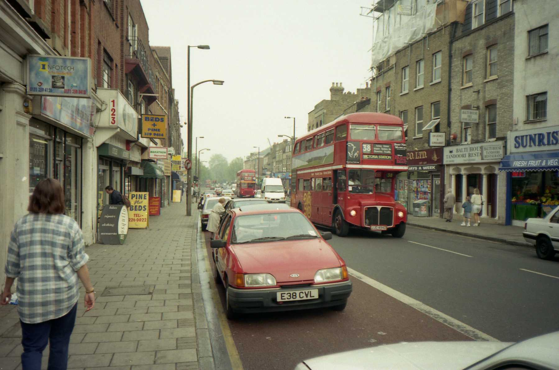 012 Essex road 38 bus